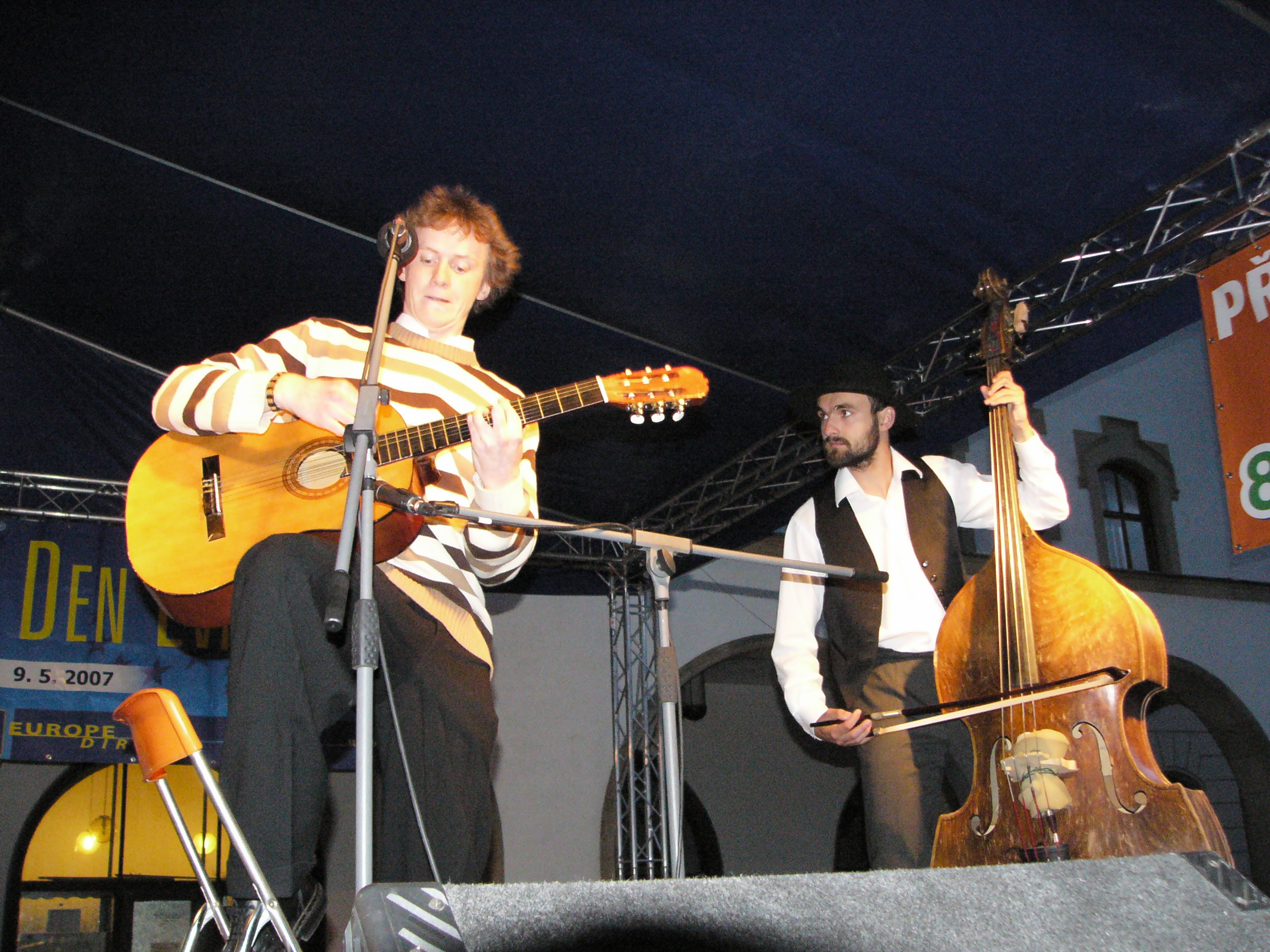 Czech music band Létající rabín in May 2007 in Olomouc (Czech Republic).